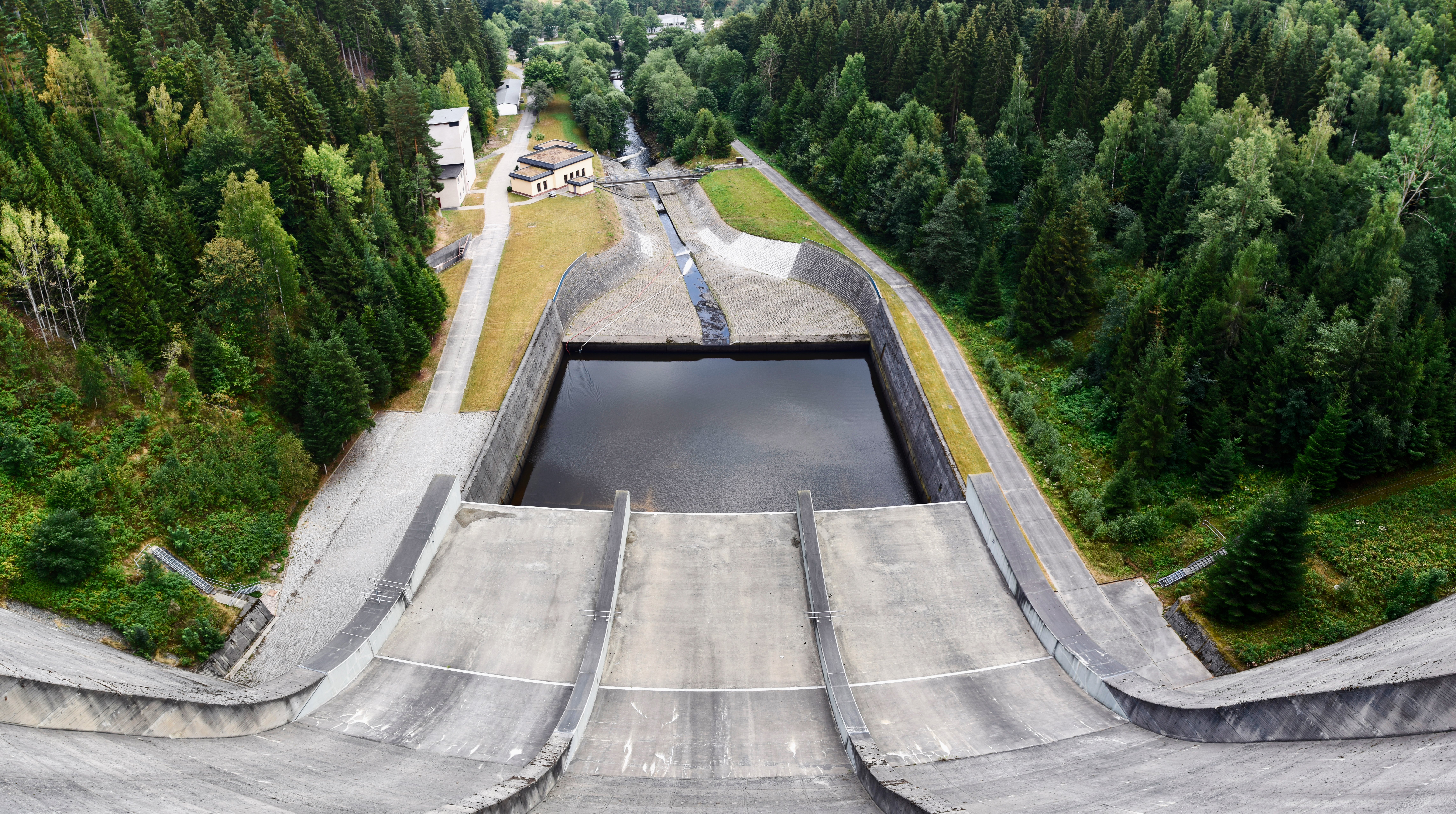 The water spillway of the Eibenstock Dam in Saxony in 2019.